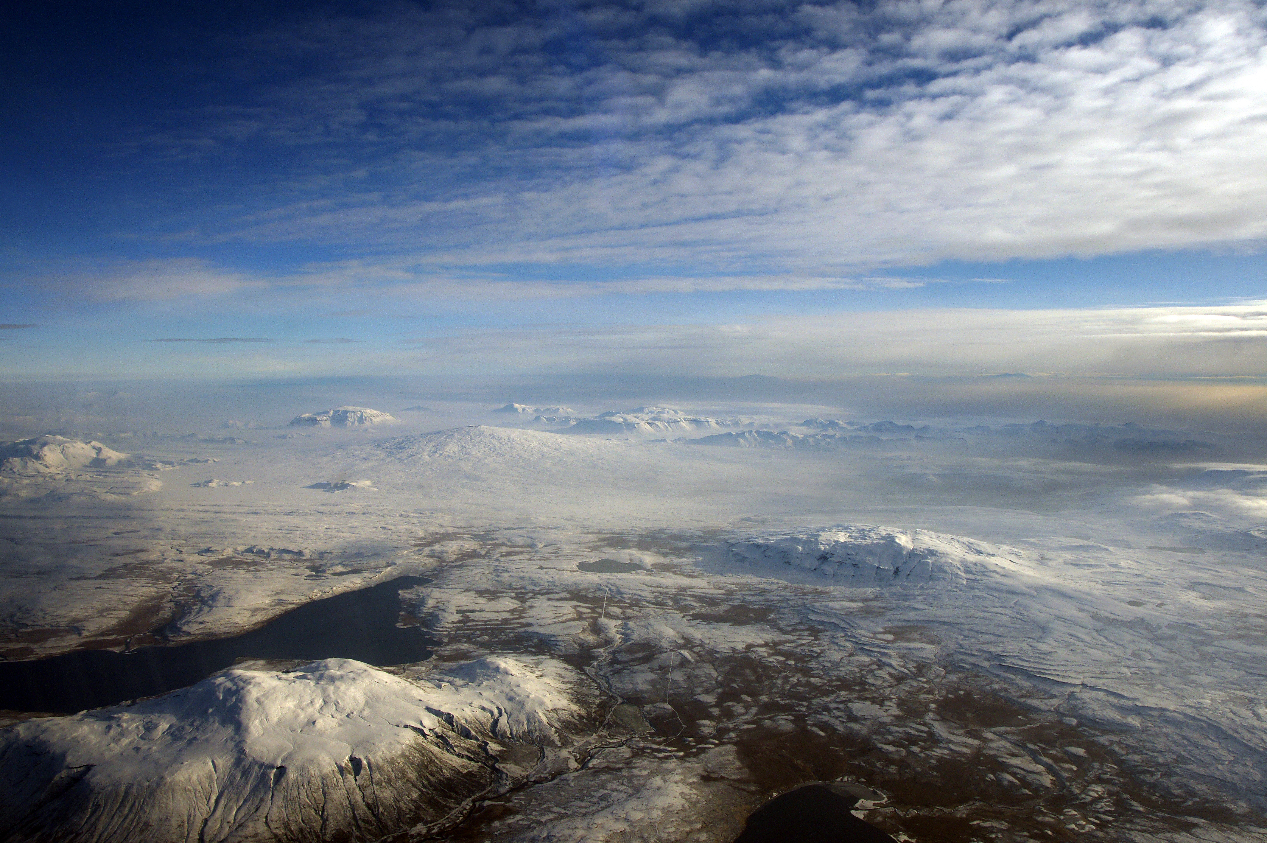 Aerial photograph of Iceland